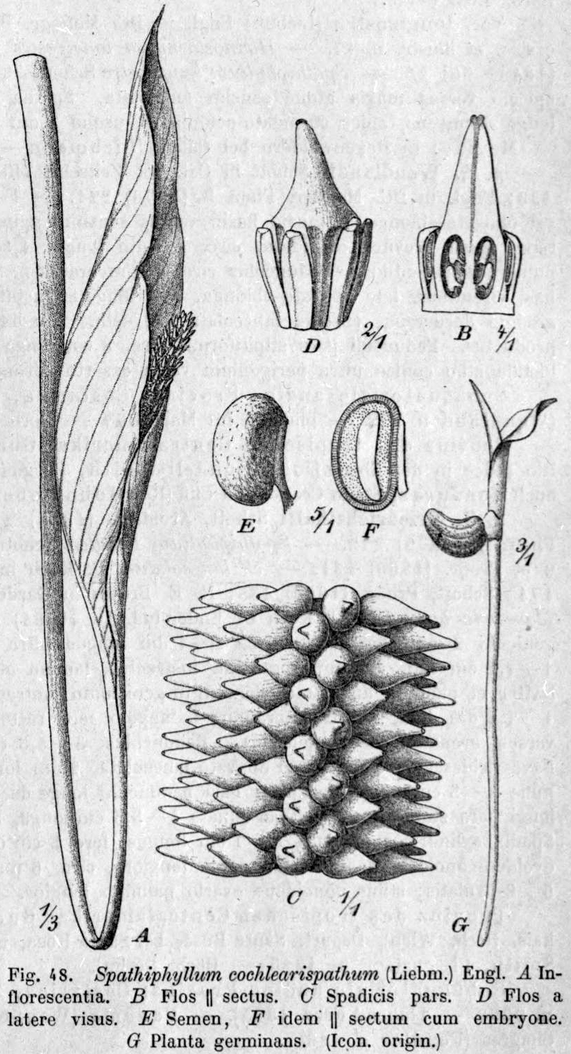 Spathiphyllum cochlearispathum